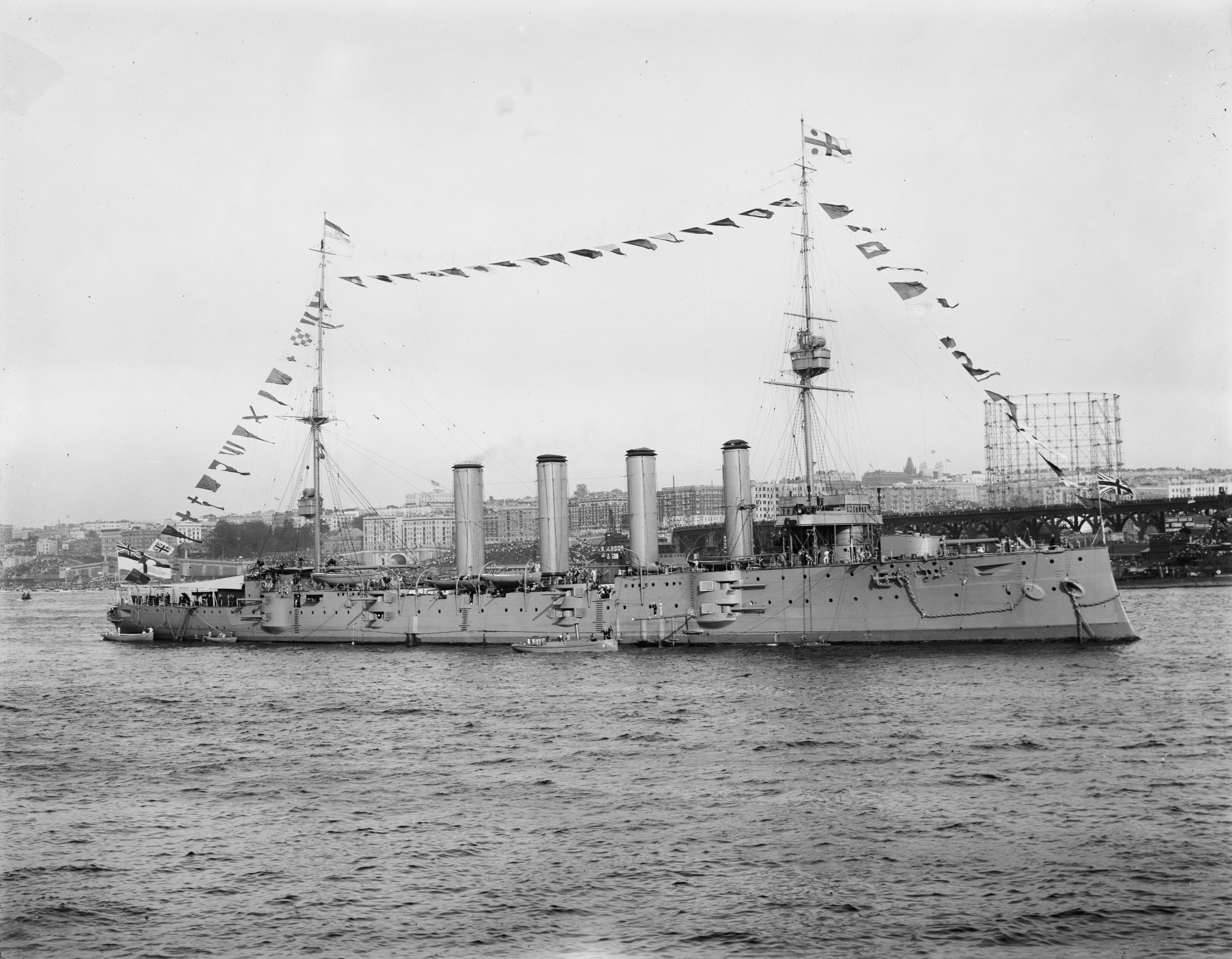 HMS Drake, a British Drake-class armoured cruiser, in the Hudson River during the 1909 Hudson-Fulton Celebration.